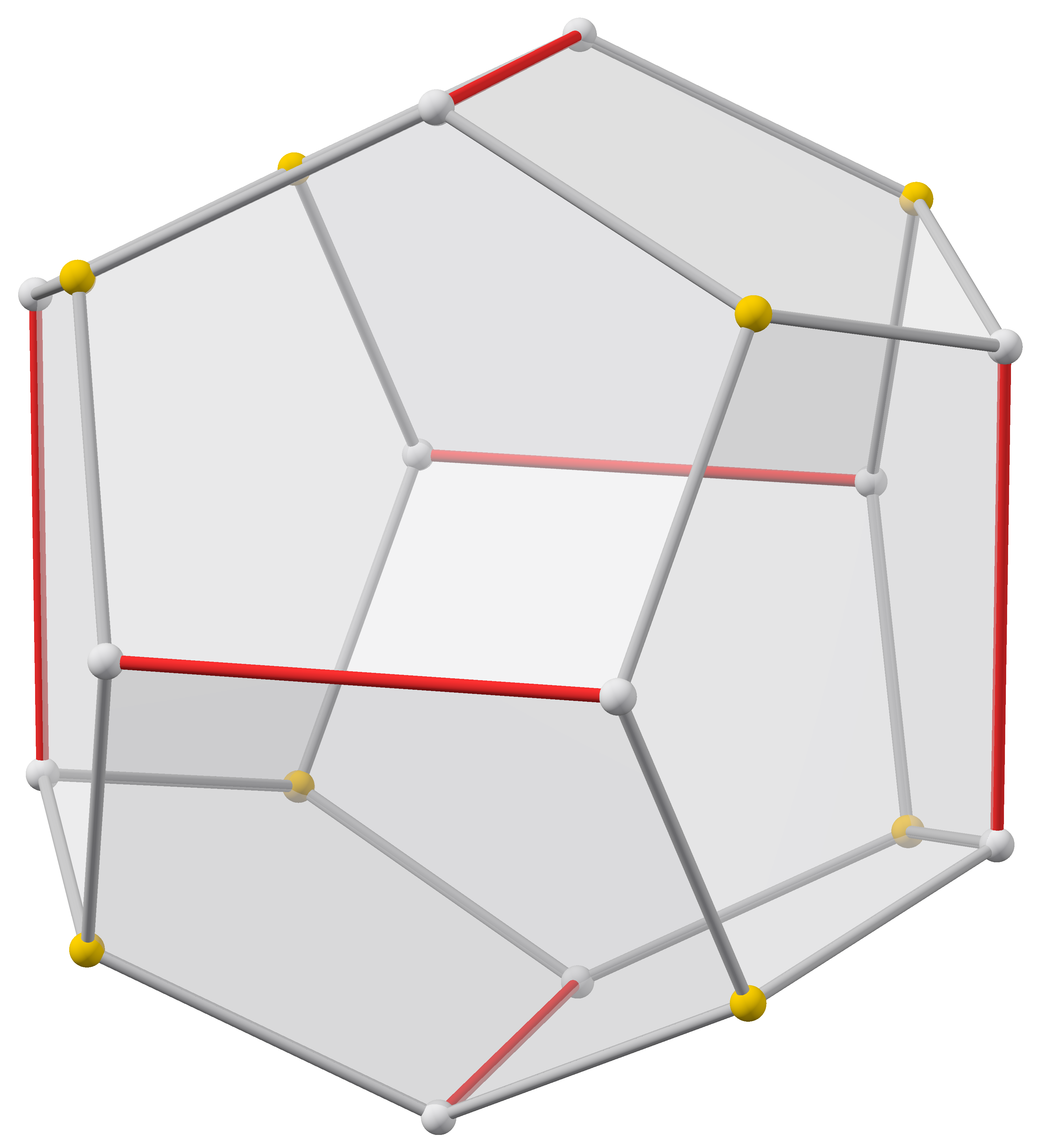 Pyritohedron Image set Platonic, Archimedean and Catalan solids with direction colors Part of Polyhedra with direction colors (image set) This polyhedron has a form of octahedral symmetry. There are 12 blue elements. This set contains renderings of Platonic, Archimedean and Catalan solids. For most of them the sphere shown on the right is the polyhedrons midsphere. The geometric properties of these images have been calculated with Python, and they have been rendered with POV-Ray. The source code used can be found on GitHub. The POV-Ray sources are in this folder. This image was created with POV-Ray. This PNG graphic was created with Python. The images in this set have consistent sizes and angles. Please do not overwrite them. If this image has a margin, there is probably a variant without it — or it can be uploaded. (Filename with " max" at the end.)